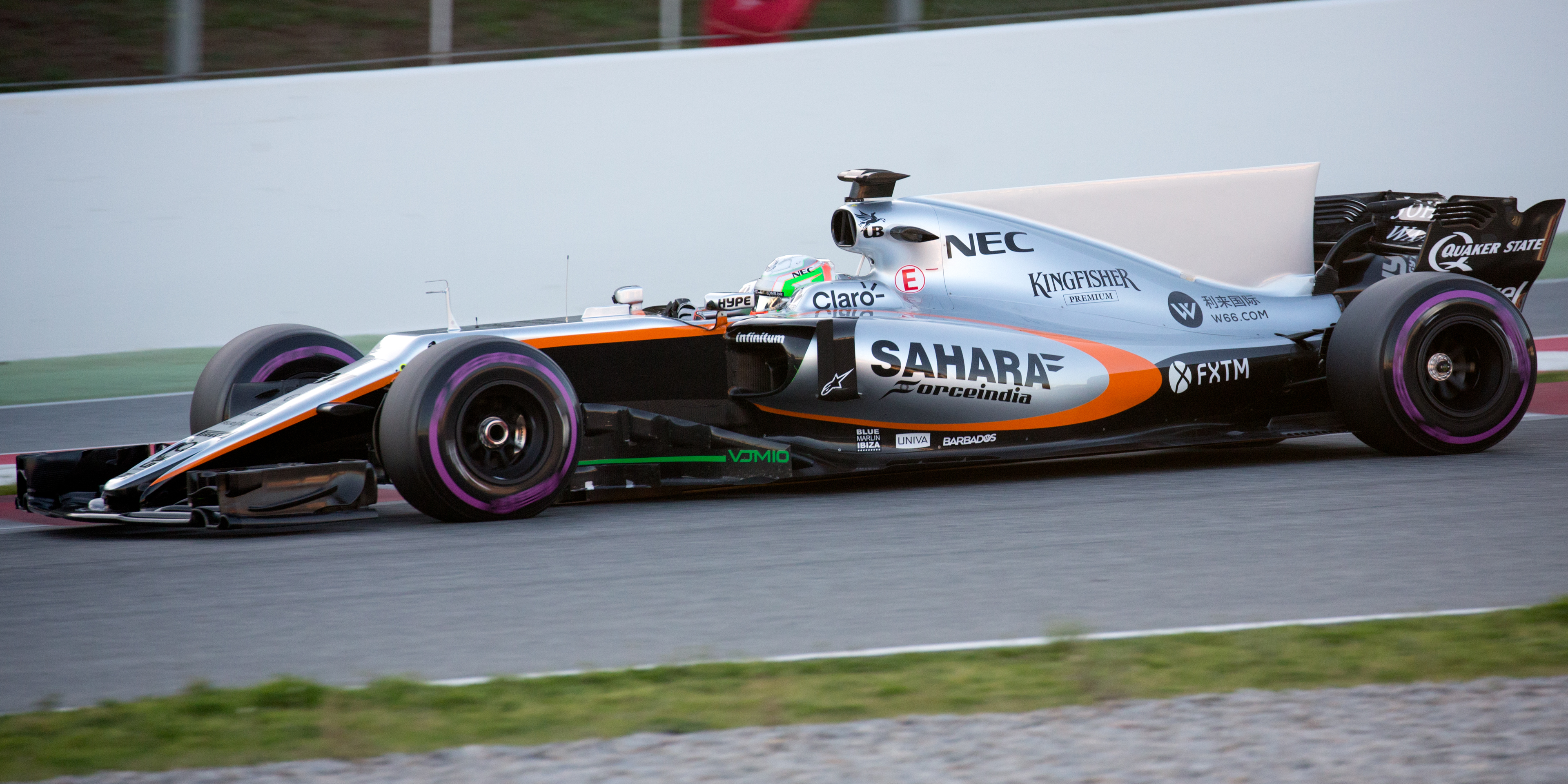 Formula One 2017 Catalonia test (27 February-2 March): Alfonso Celis Jr. (Force India)